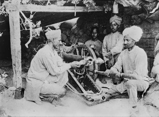 Indian gunners with BL 10-pounder mountain gun gun near the Australian 1st Battalion's rest camp at the foot of White's Valley, Gallipoli Peninsula.